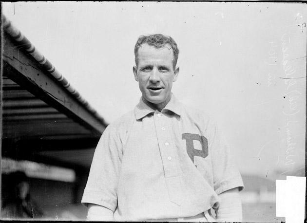 1904 photo of Kid Gleason, public domain.